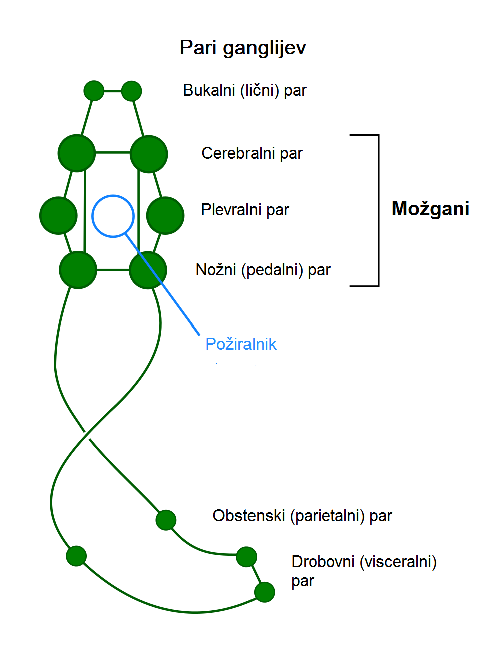 Simplified plan of the gastropod central nervous system, showing the main ganglia